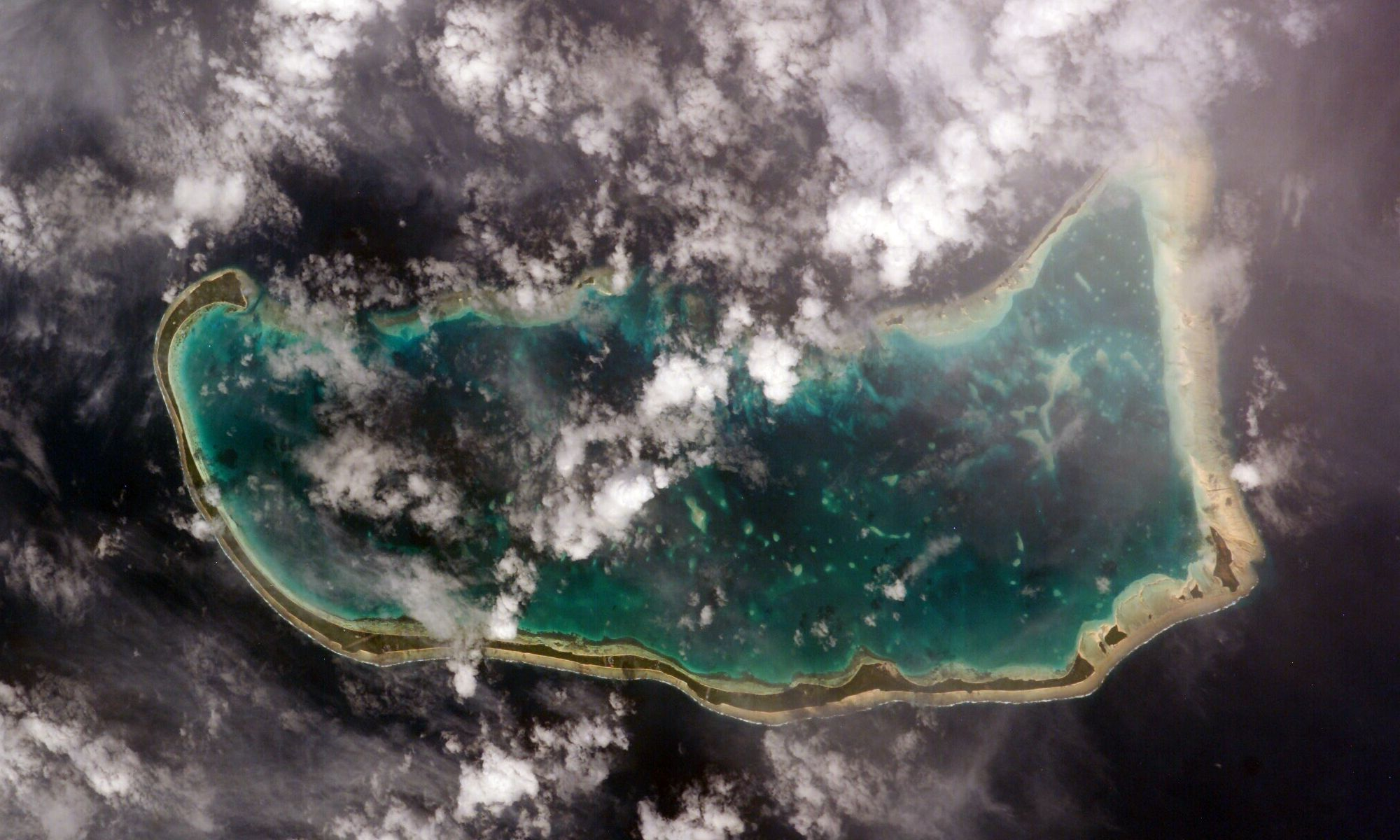 NASA astronaut image of Abaiang Atoll, Gilbert Islands, Kiribati